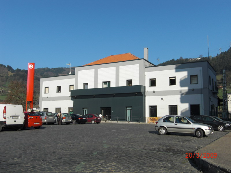 Photo of the train station of Tolosa